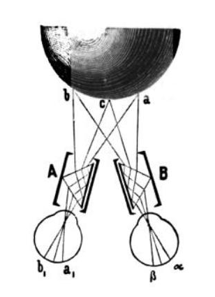 Charles Wheatstone's prismatic pseudoscope. Uploaded by Caltrop 15:46, 4 July 2007 (UTC) A Text-book of Human Physiology - Page 875 by Albert Philson Brubaker, Leonard Landois, publ. Blakiston, Philadelphia, 1905